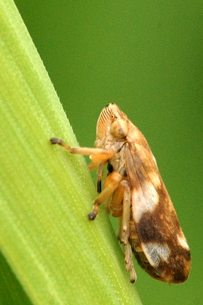 Philaenus spumarius from Commanster, Belgian High Ardennes .